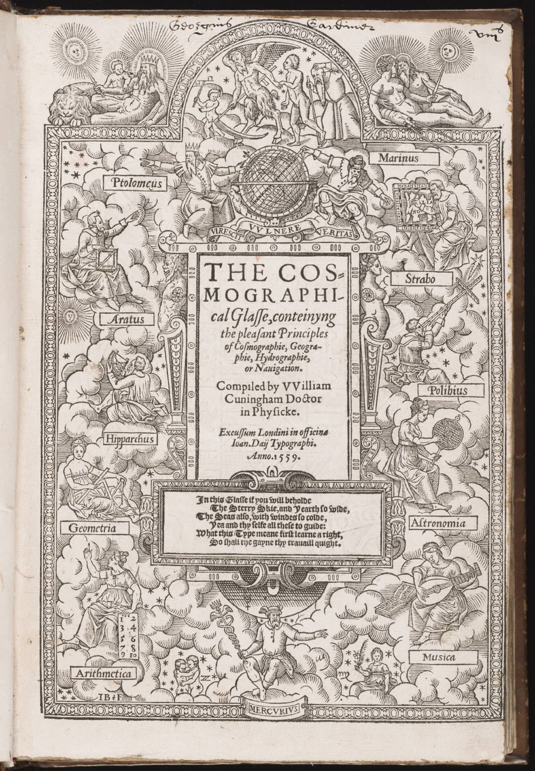 Title page, "The cosmographical glasse, conteinyng the pleasant principles of cosmographie, geographie, hydrographie, or nauigation. Compiled by VVilliam Cuningham," published at London, 1559. Title within woodcut border. General Collection, Beinecke Rare Book and Manuscript Library, Yale University, New Haven, Connecticut.